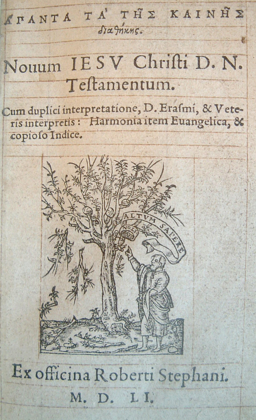 The firts page from the 4th edition of Greek New Testament of Estienne